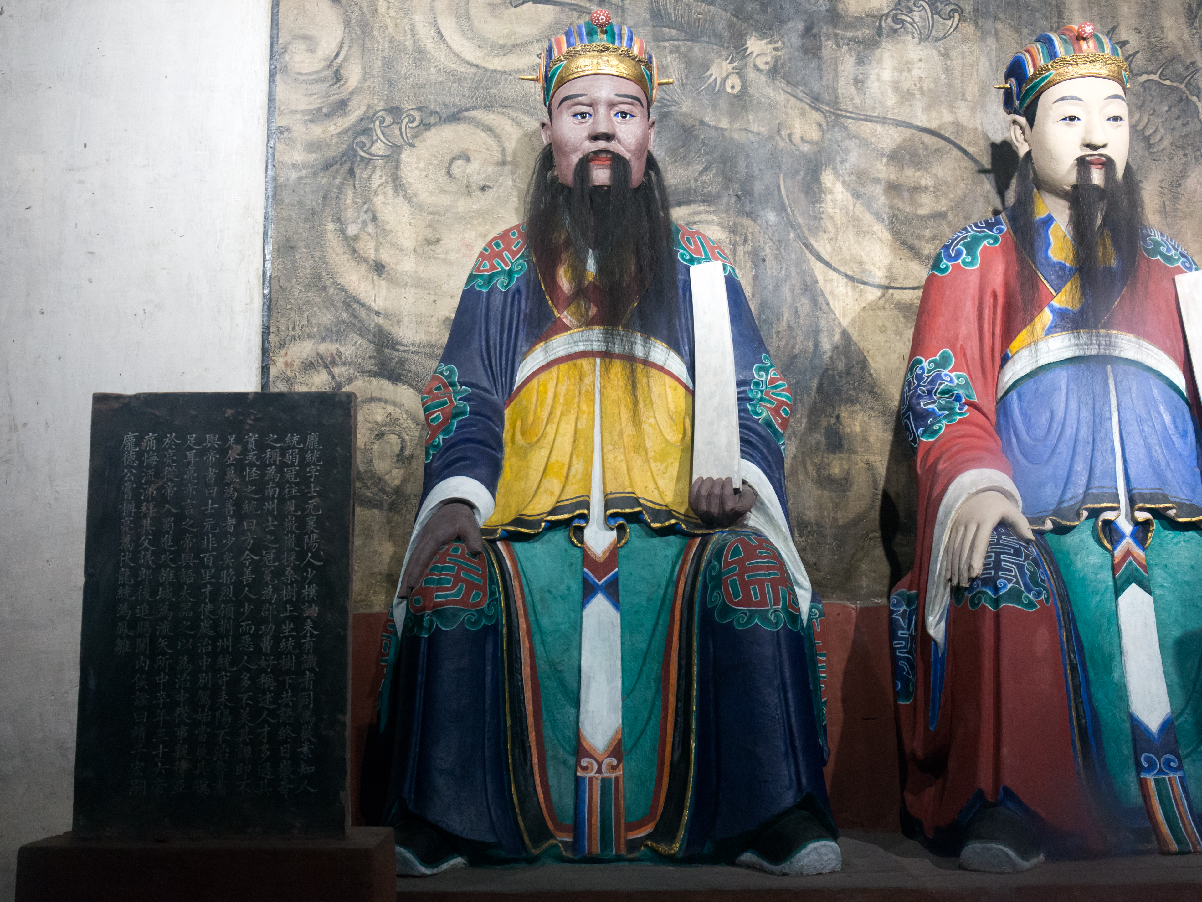 Pang Tong (龐統)